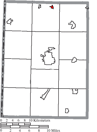 Map of the municipal and township boundaries of Preble County, Ohio, United States, as of the 2000 census, with the location of the village of West Manchester highlighted. Township borders are shown only in unincorporated areas in order to differentiate incorporated and unincorporated areas more clearly.